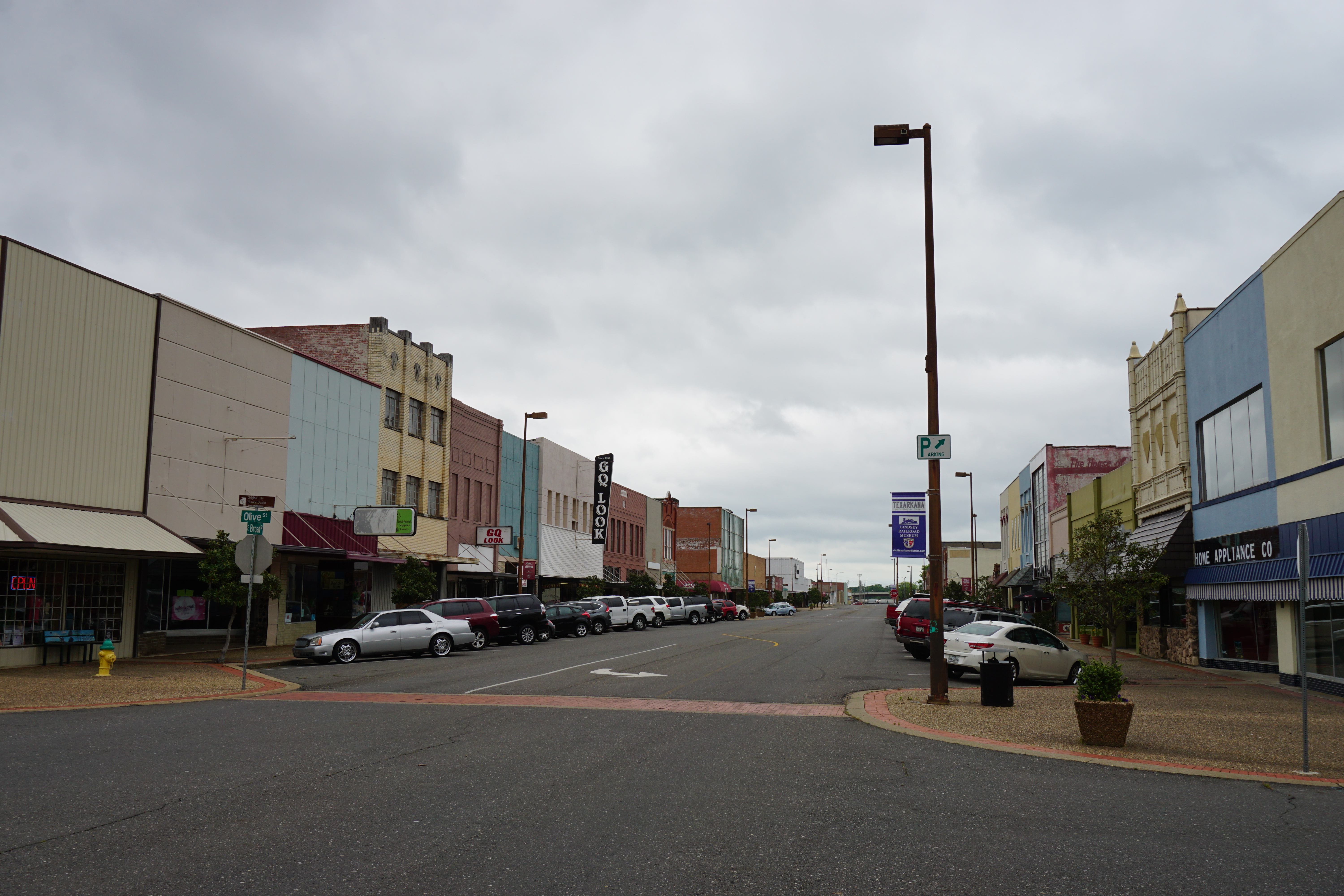 Broad Street in Texarkana, Arkansas (United States).